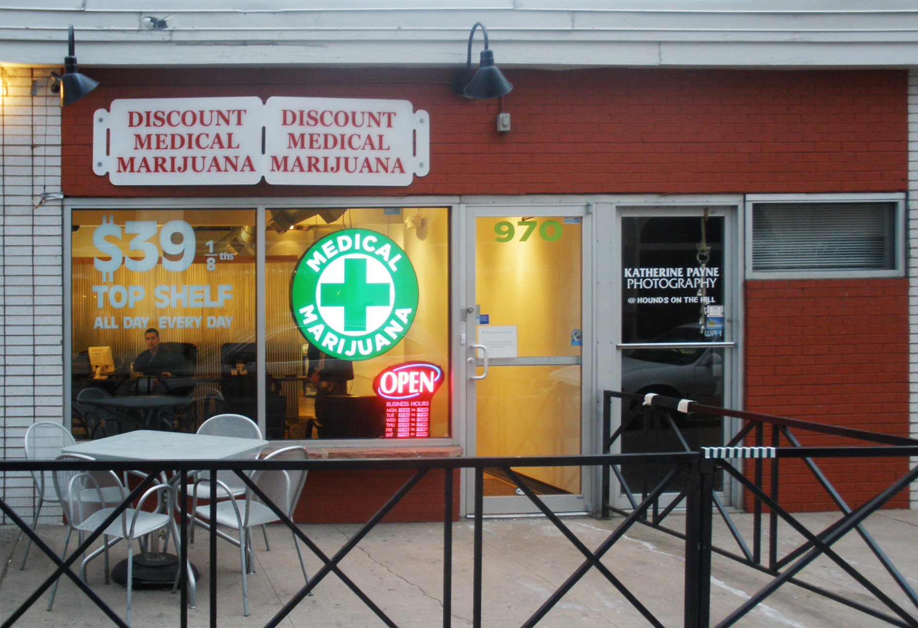 Discount Medical Marijuana cannabis shop at 970 Lincoln Street, Denver, Colorado.